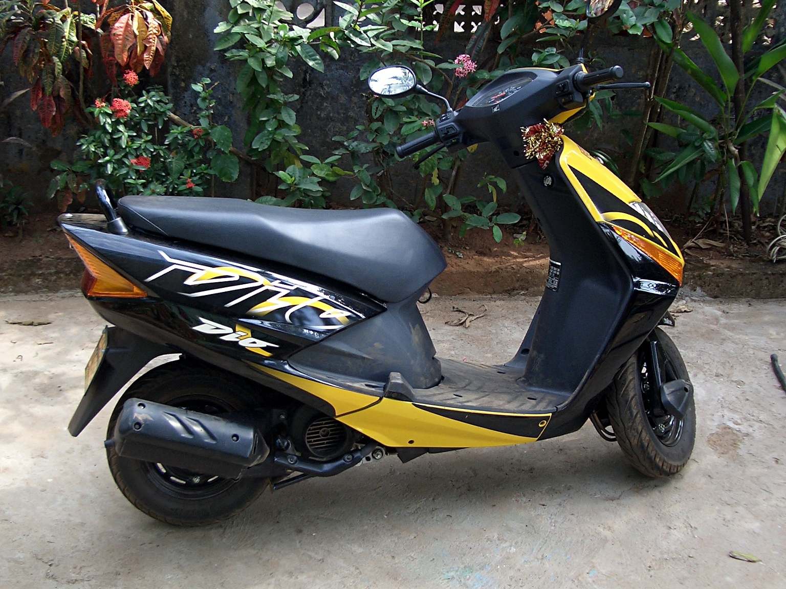 Honda Dio automatic scooter (102cc) photographed in Galgibaga, Goa, India.